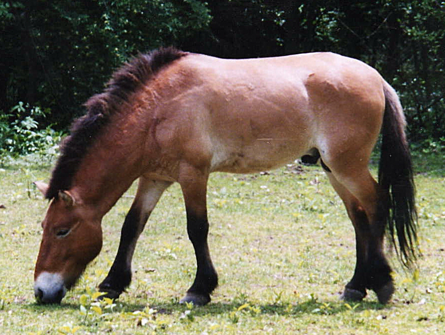 Mongolian Wild Horse